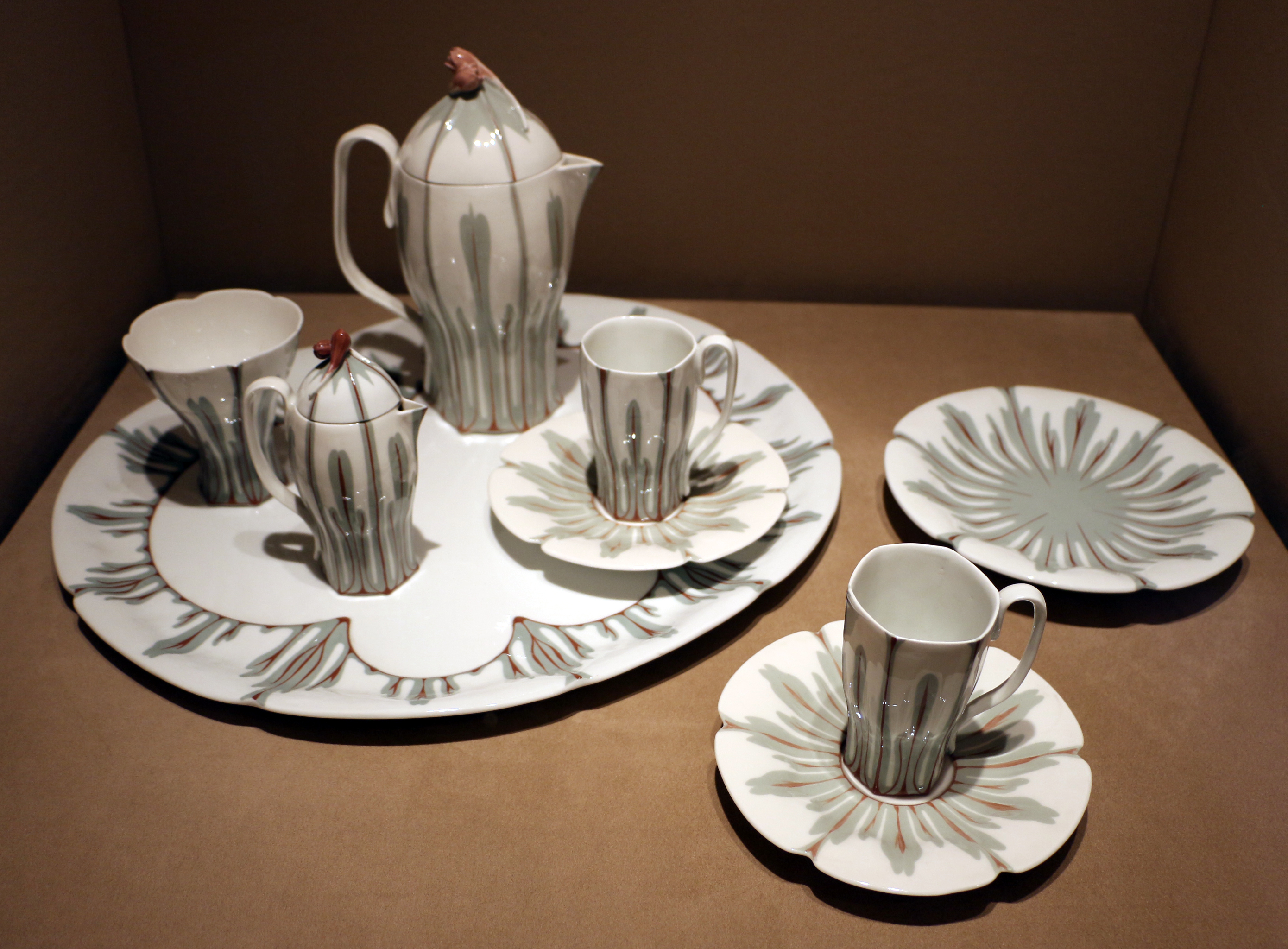 Pottery in the Indianapolis Museum of Art